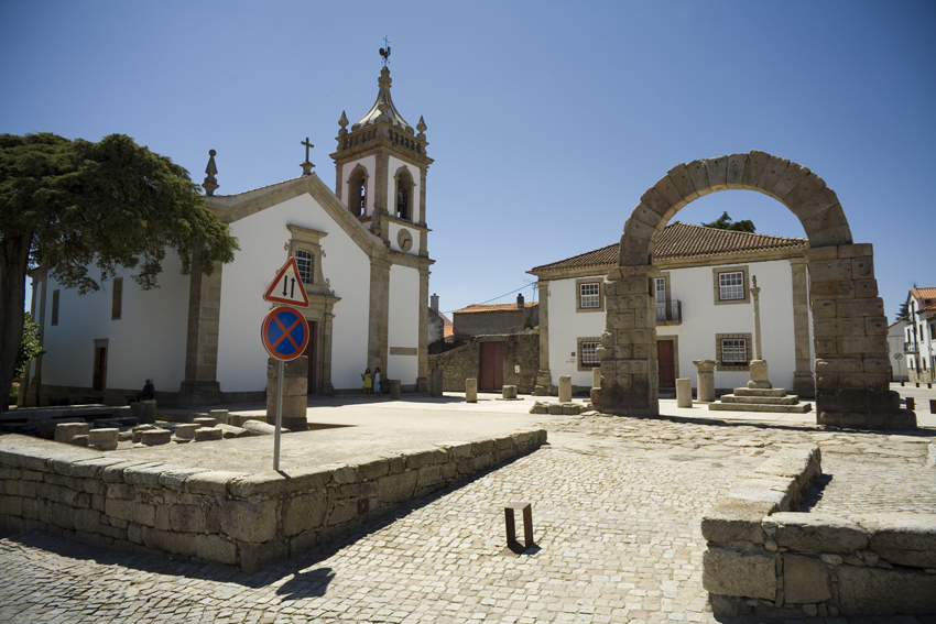 This file was uploaded for Wiki Loves Monuments in Portugal with the unique identifier 70552.